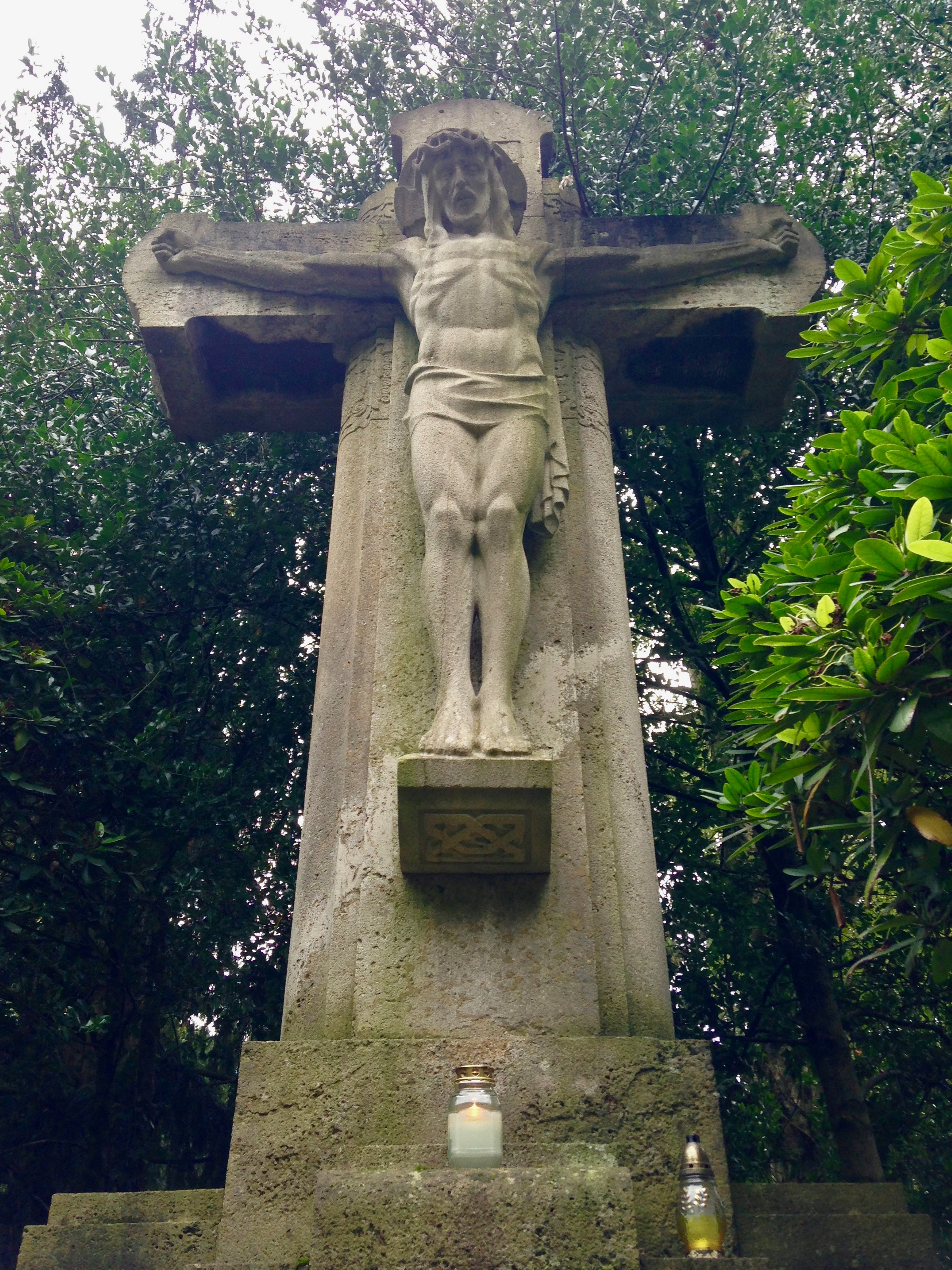 Düsseldorf, Eller cemetary, high cross from 1909